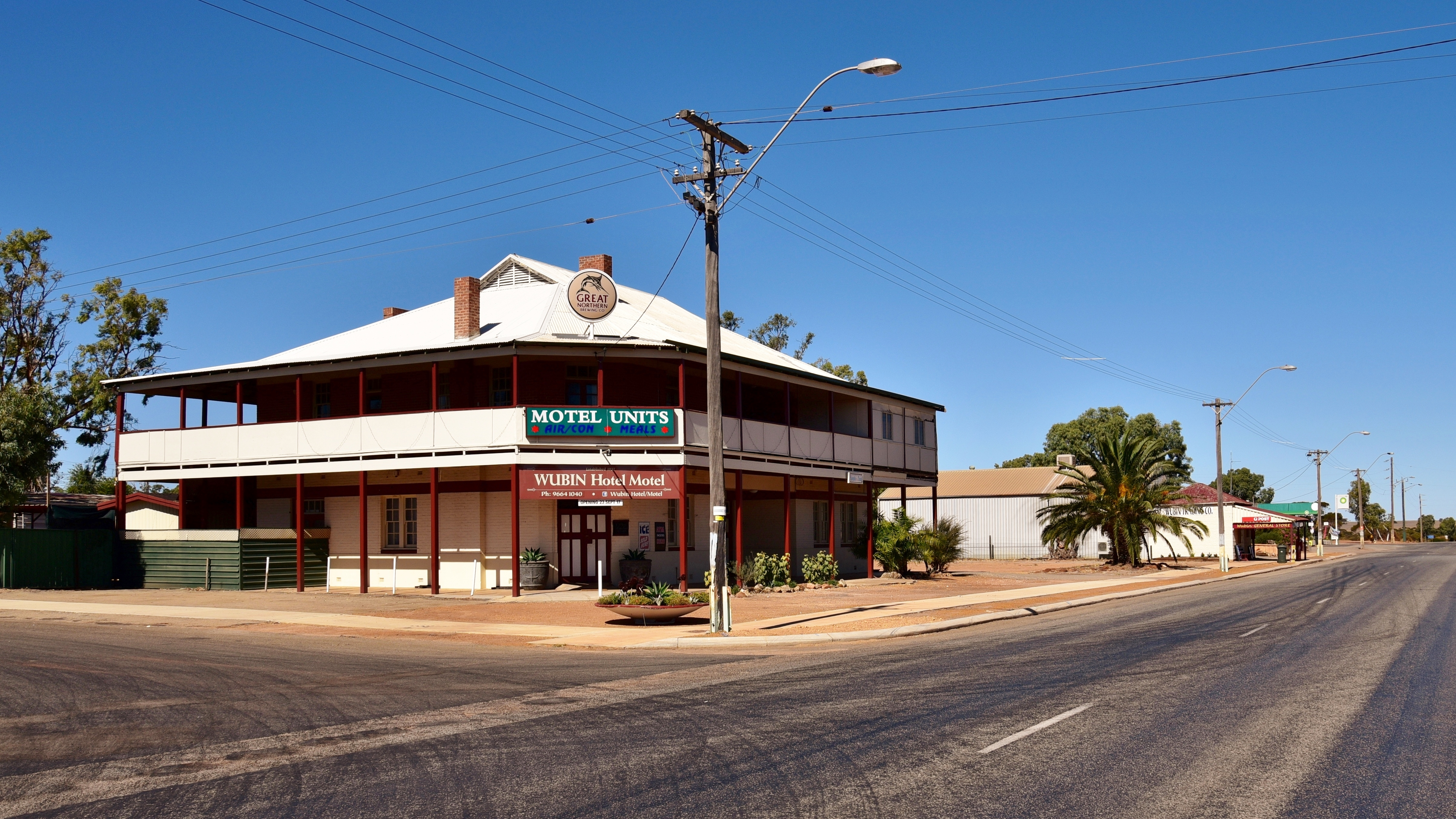 View of the Wubin Hotel Motel, 8 Great Northern Highway, Wubin, Western Australia